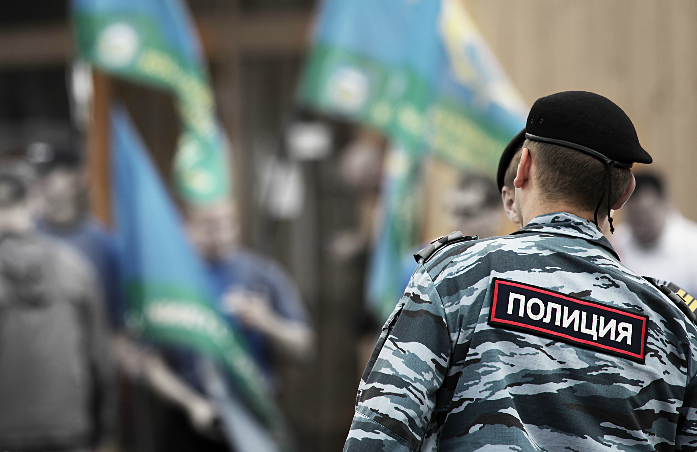 Airborne Troops Day 2013